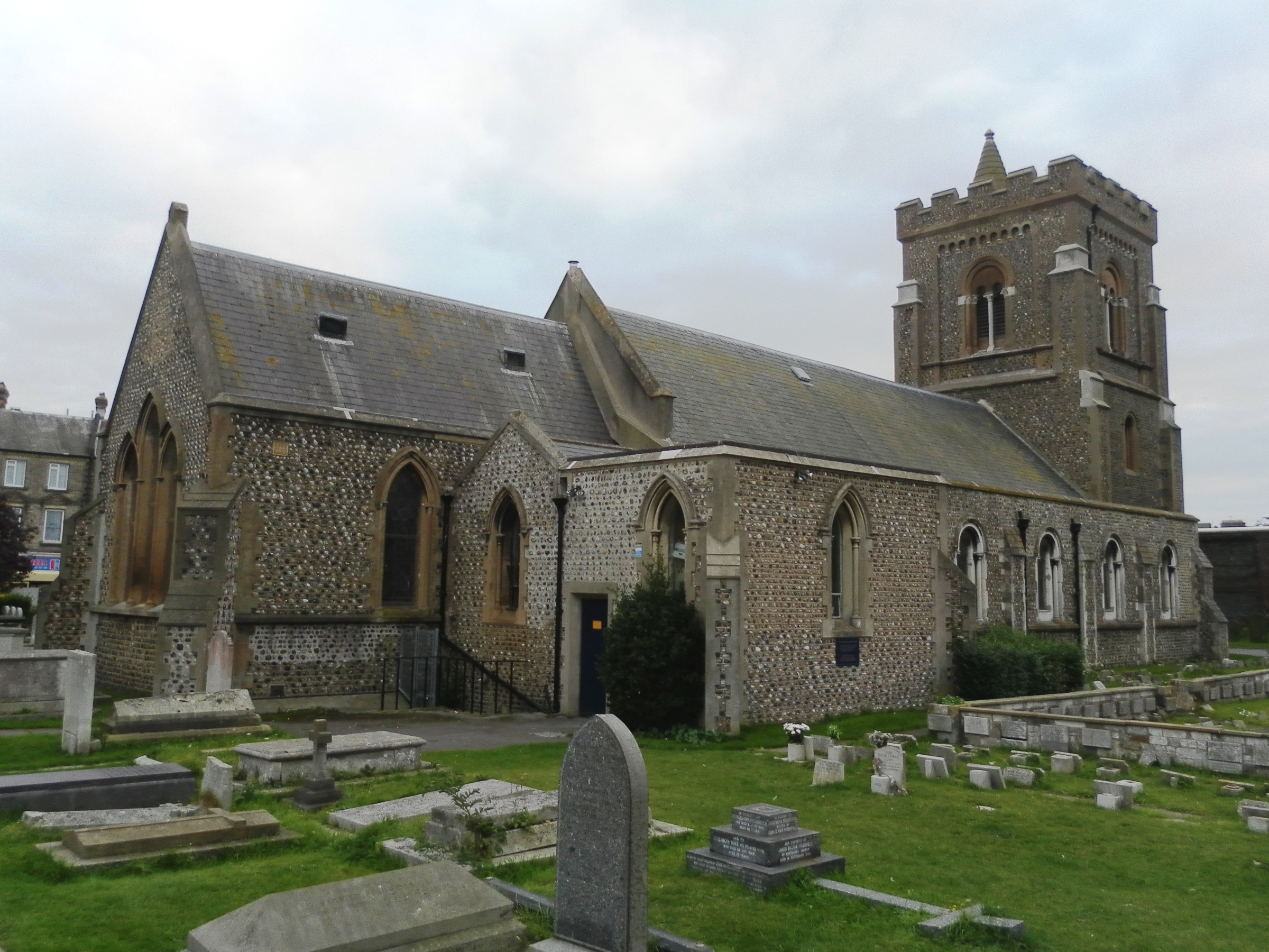 St Andrew's Church, Church Road, Hove, City of Brighton and Hove, England. The ancient parish church of Hove, rebuilt in the 19th century and now superseded as parish church by All Saints nearby. Listed at Grade II* by English Heritage (IoE Code 365514)